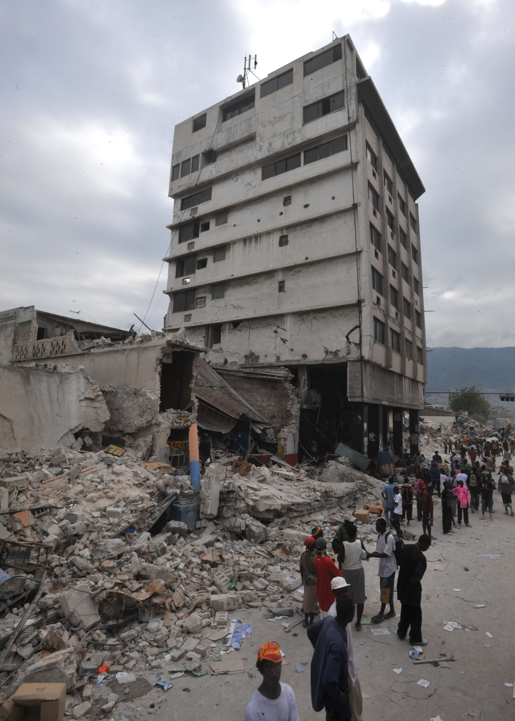 Damaged buildings in the Port-au-Prince neighborhood of Bel-Air, after the 2010 Haiti earthquake.